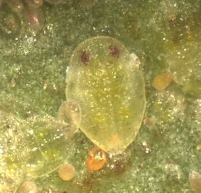 Bemisia tabaci puparium on sweet pepper. Photo by Gabriel TERRAZ